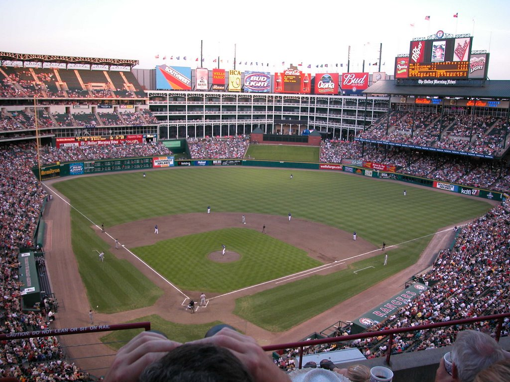 This is a picture I took myself at Ameriquest Field in Arlington (then known as The Ballpark in Arlington) on August 2, 2003. The stadium is now known as Rangers Ballpark in Arlington. The reason I am uploading this to replace the one at The Ballpark in Arlington is that I am releasing the image with no rights reserved. 05:46, 5 September 2006 . . Dopefish . .1024 x 768 (213,368 bytes)